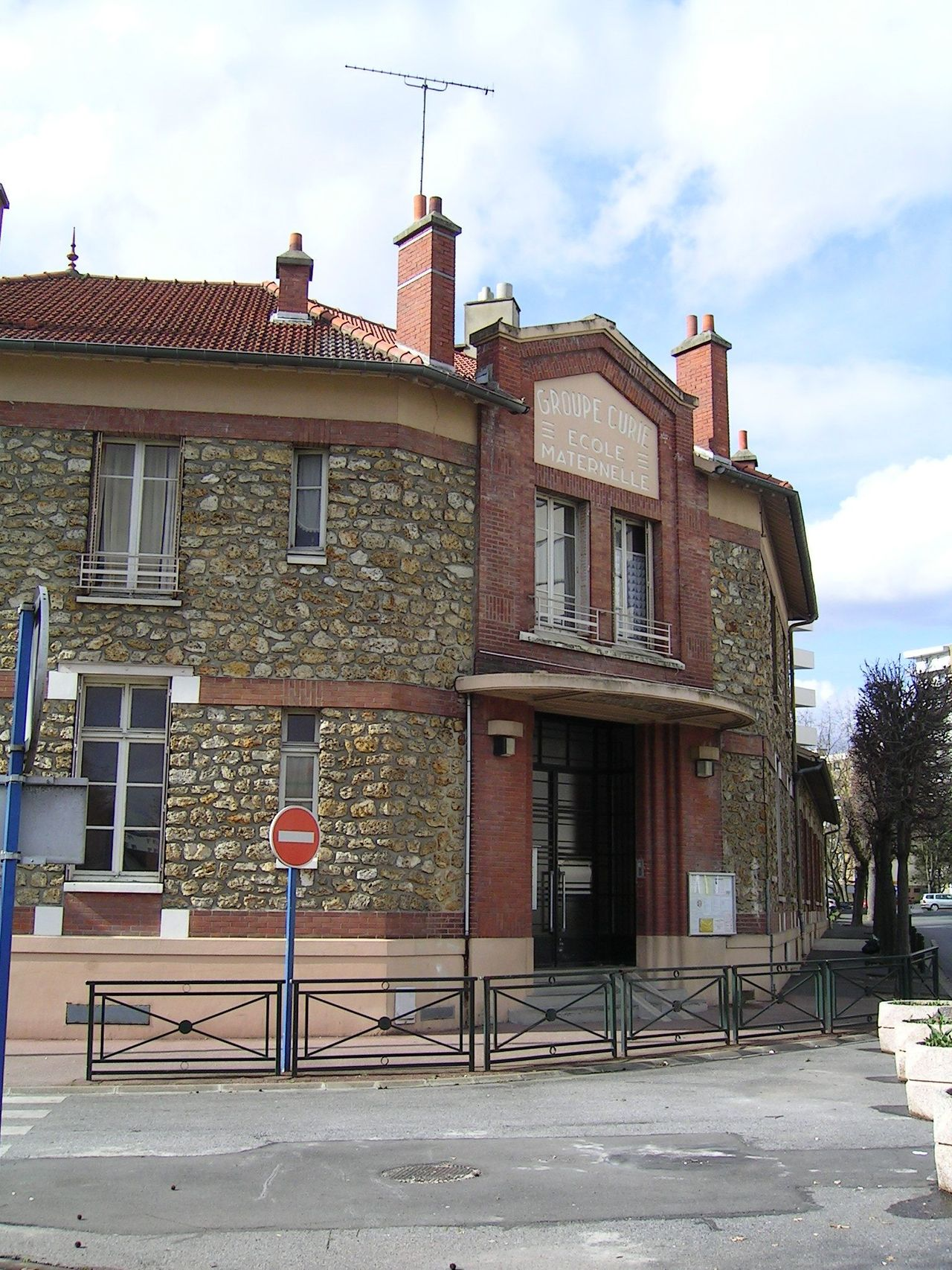 École maternelle Curie Photo personnelle (own work) de Marianna